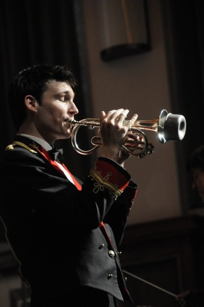 Paul Duffy performing at the Black Dyke Festival in Leeds Metropolitan University, 2010